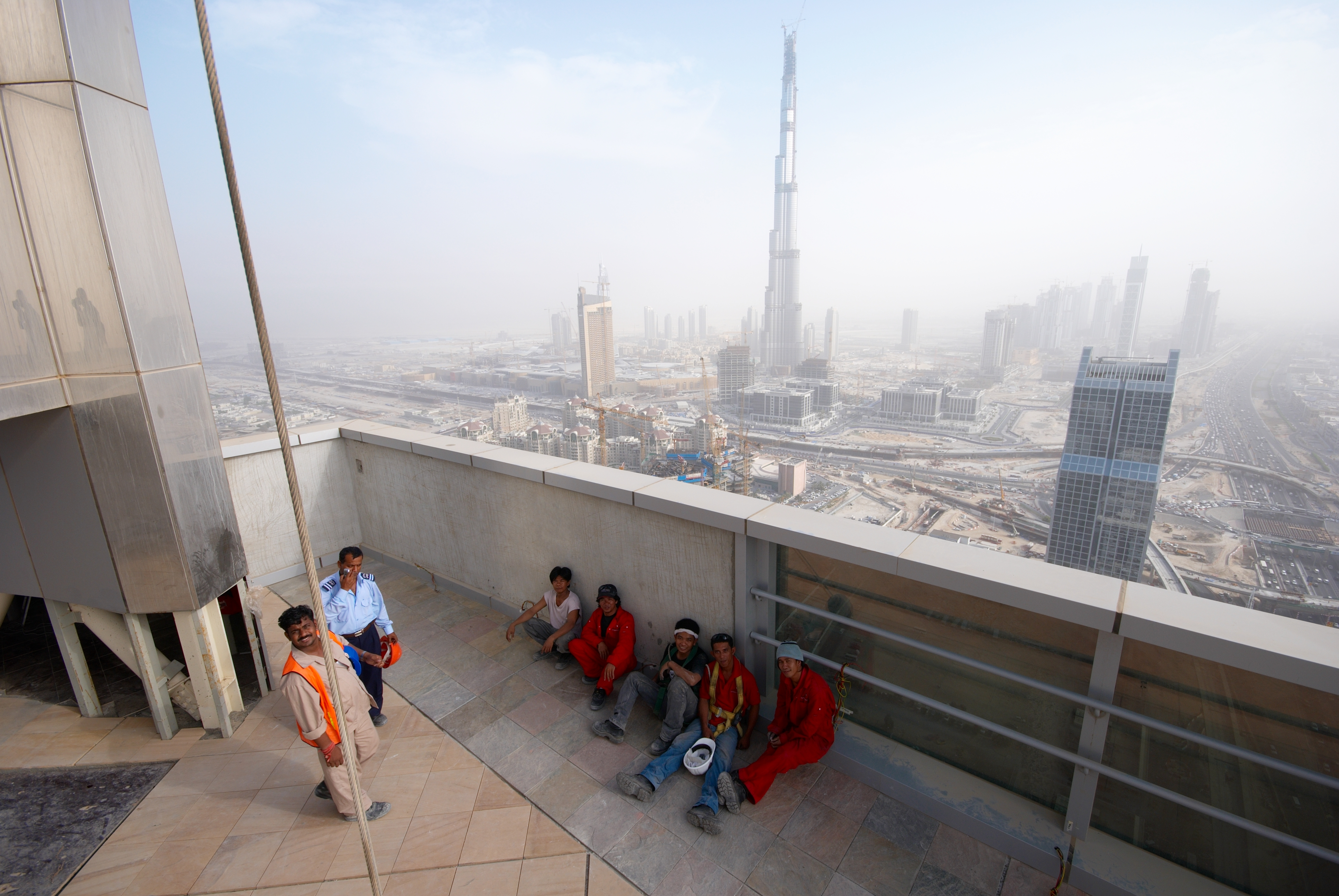 Dubai construction workers having their lunch break. In the background the tallest building in the world - Burj Dubai.